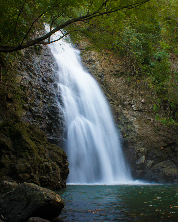 A waterfall near Montezuma, Costa Rica.